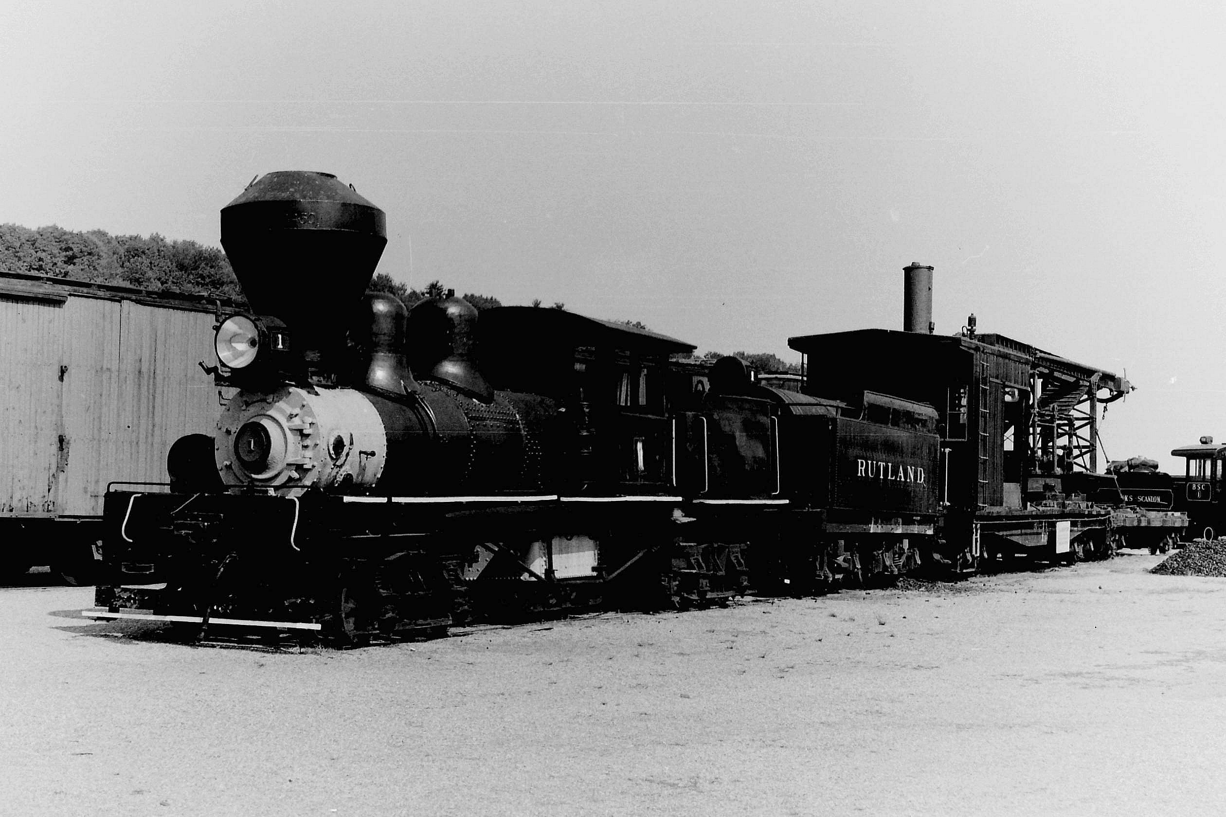 Meadow River Lumber Co. "Shay" type B+B No.1, built by Lima in 1910, at Steamtown, Bellows Falls, Vermont 8/70.